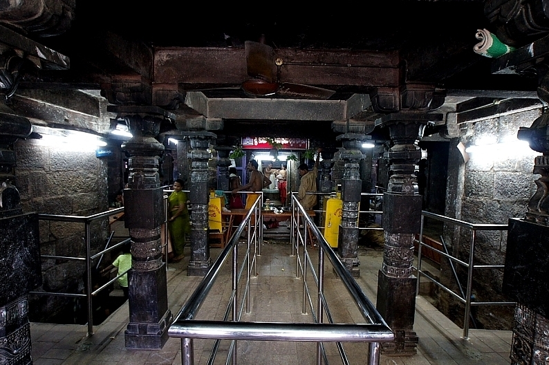 The very famous Pancharama Shri Kumararama Bheemeshwara Swamy temple is situated in Samalkot.